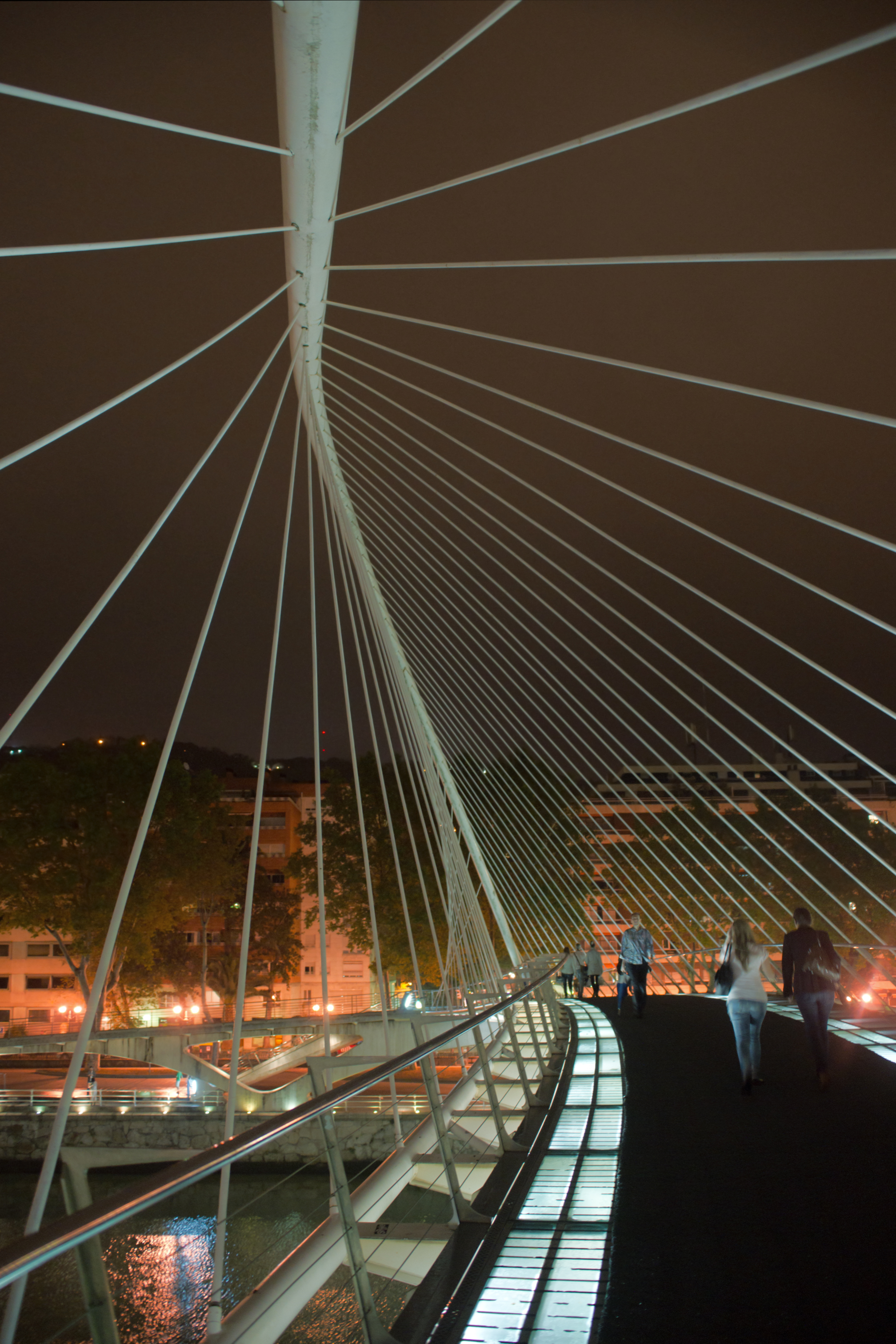 Zubizuri is a pedestrian bridge crossing the Nervión river in Bilbao. Architect: Santiago Calatrava.